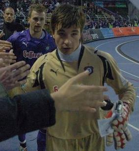 Goal Keeper Martin Männel from FC Erzgebirge Aue